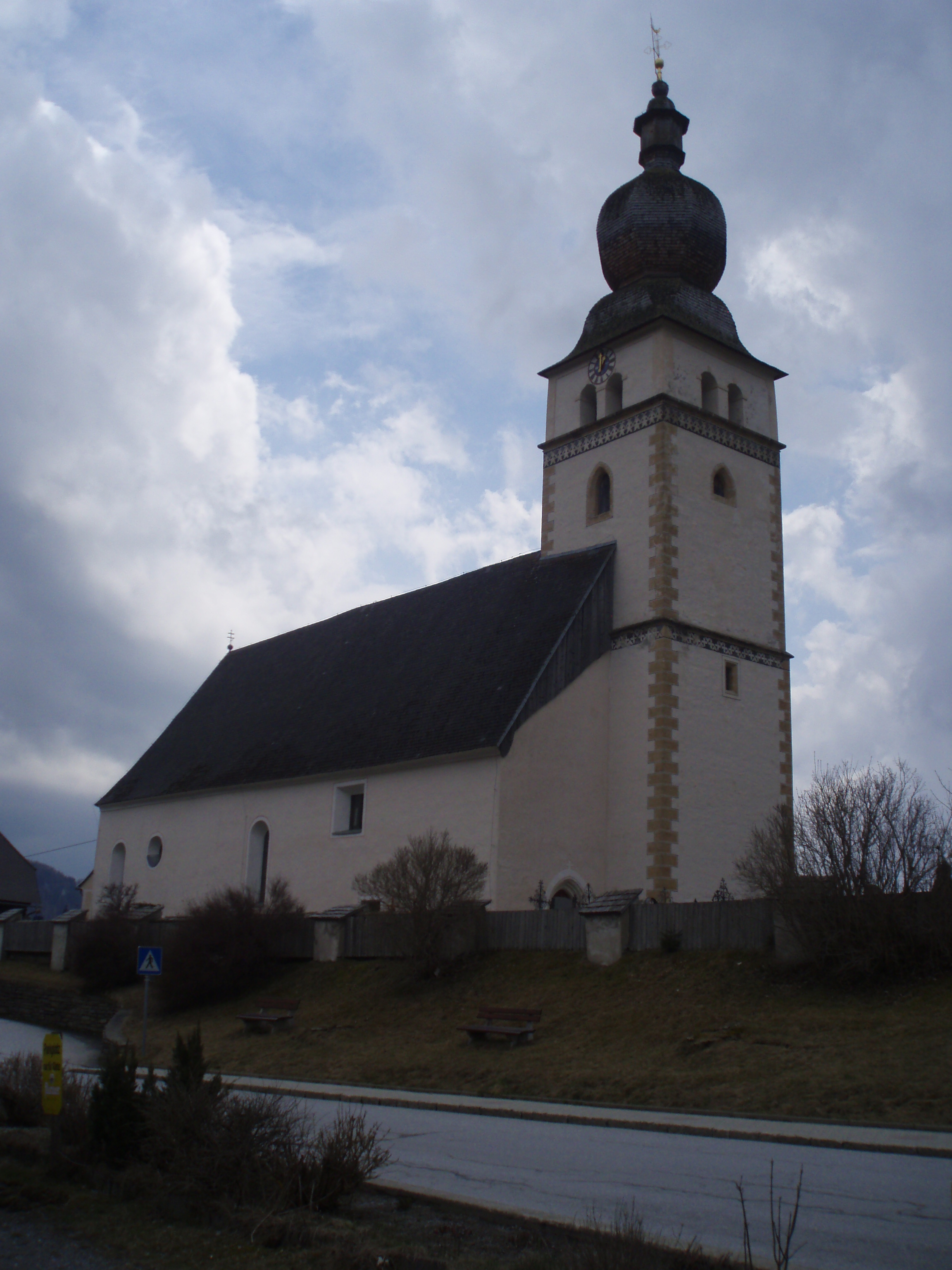 Kath. Pfarrkirche hl. Oswald mit Friedhof